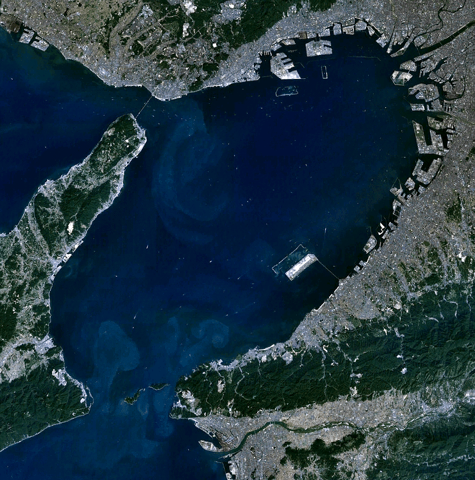 the view of Osaka Bay in Japan, from Landsat, generated on NASA World Wind.